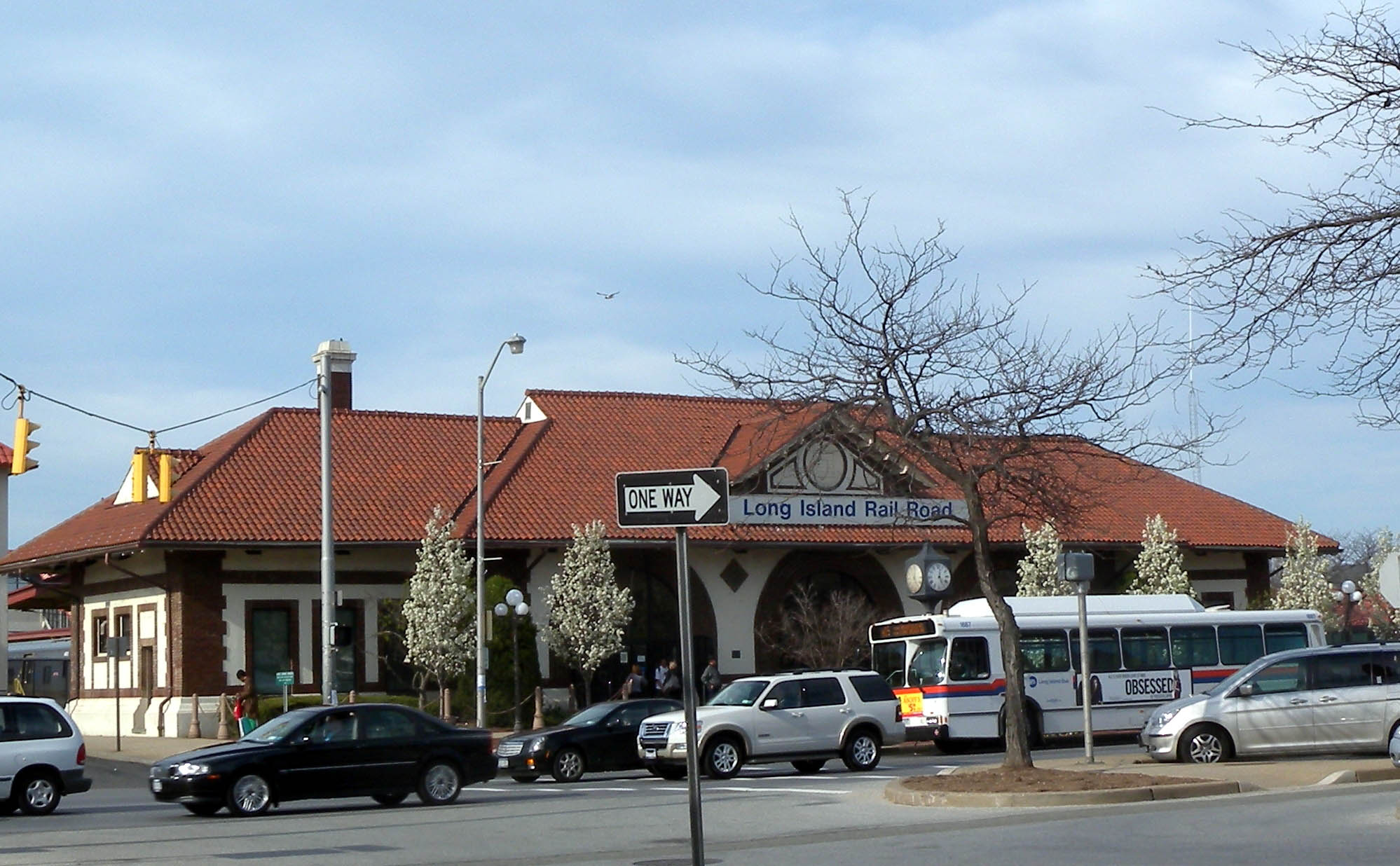 Looking northeast across Park Avenue at Long Beach LIRR station on a partly sunny afternoon.